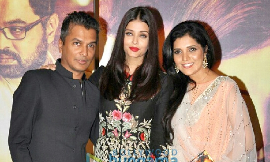 Mukta Barve and Aishwariya Rai Bachchan at music launch of Hrudayantar